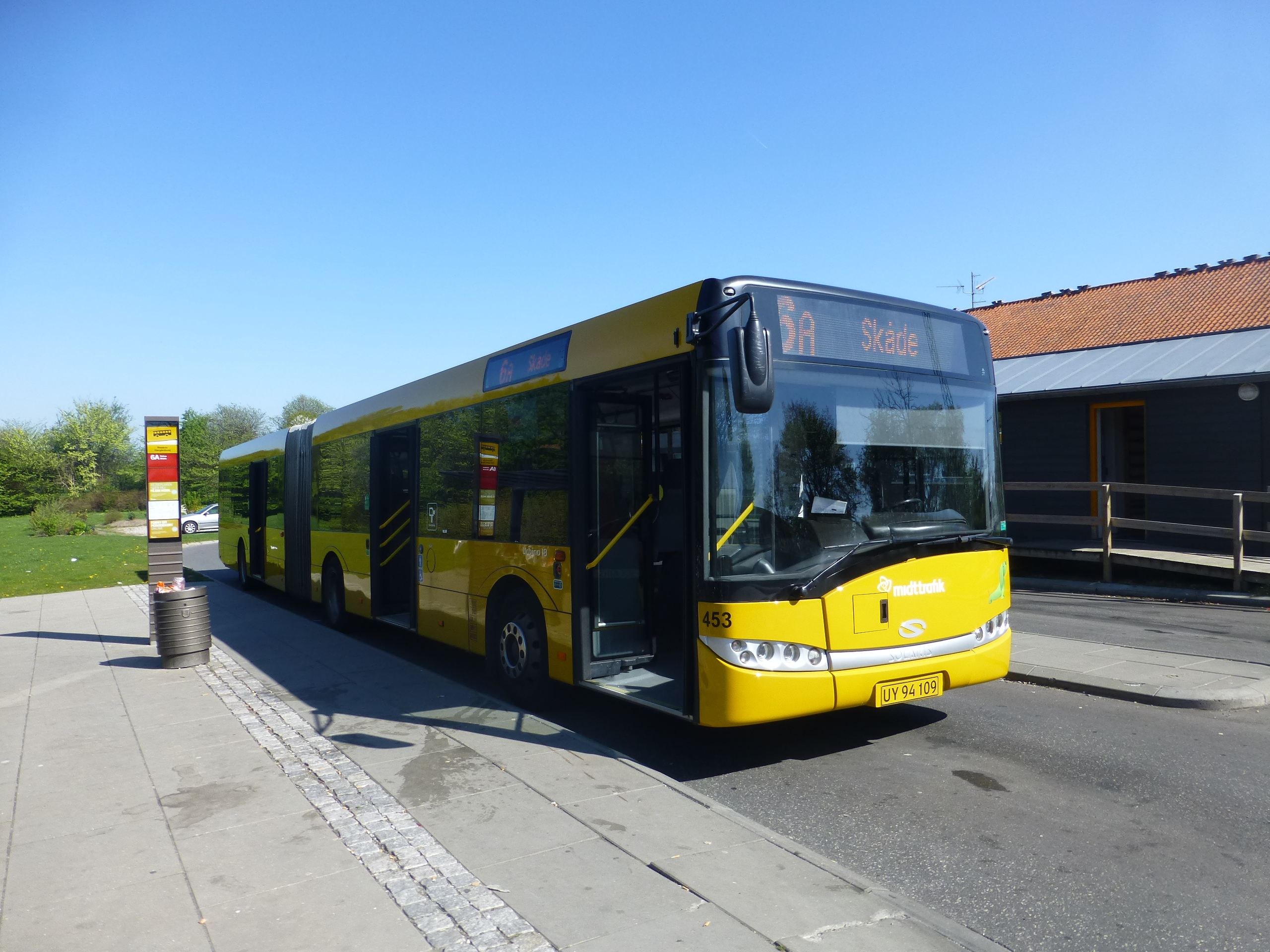 Bus line 6A at Vestre Strandalle Station in Risskov in Aarhus in Denmark.